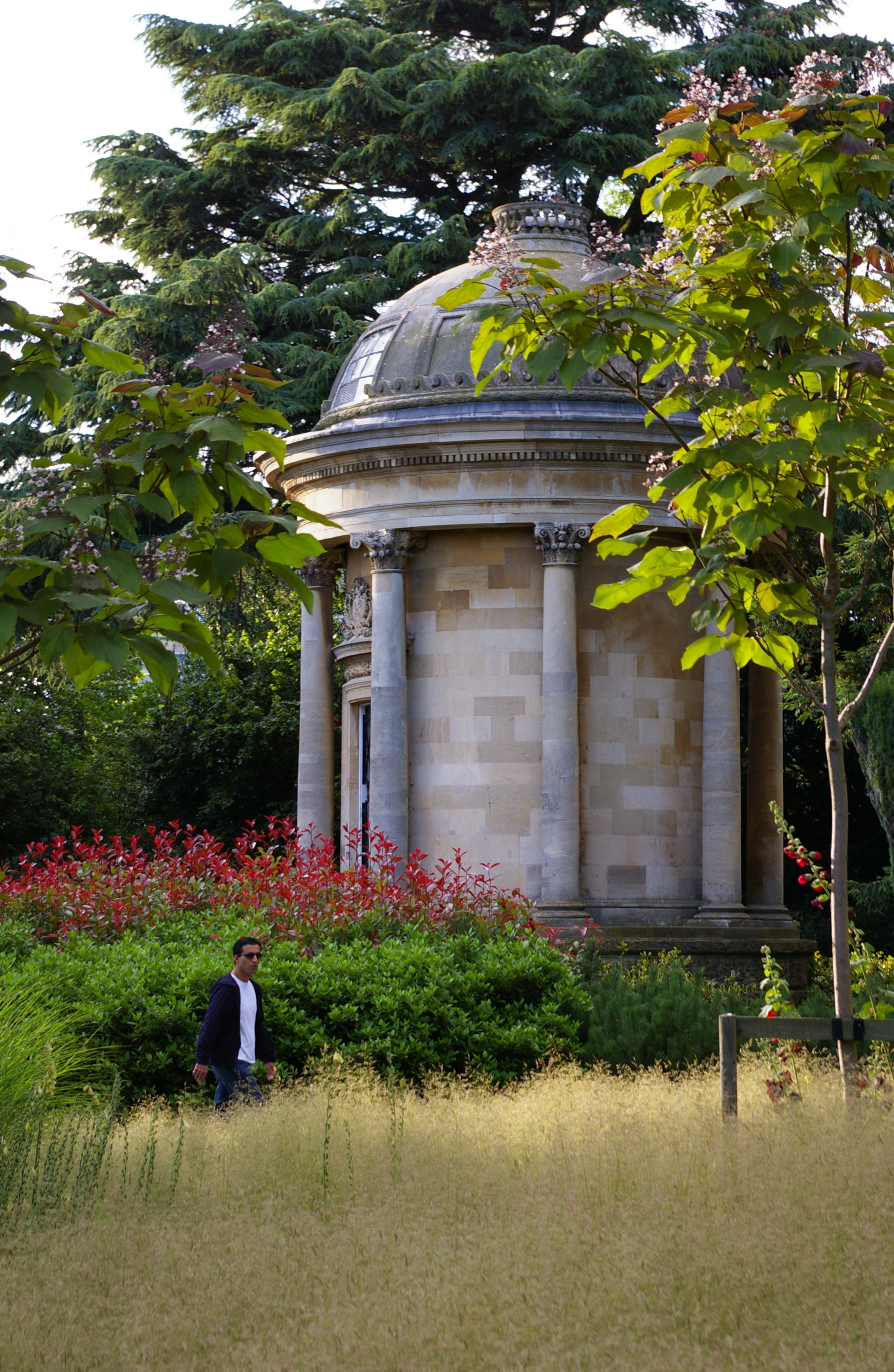 Photograph of Jephson Memorial, in Jephson Gardens, Leamington Spa, England.